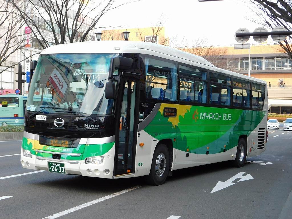 Miyakoh bus Hino S'elega(QTG-RU1ASCA)highwaybus "Sendai-Ohira"